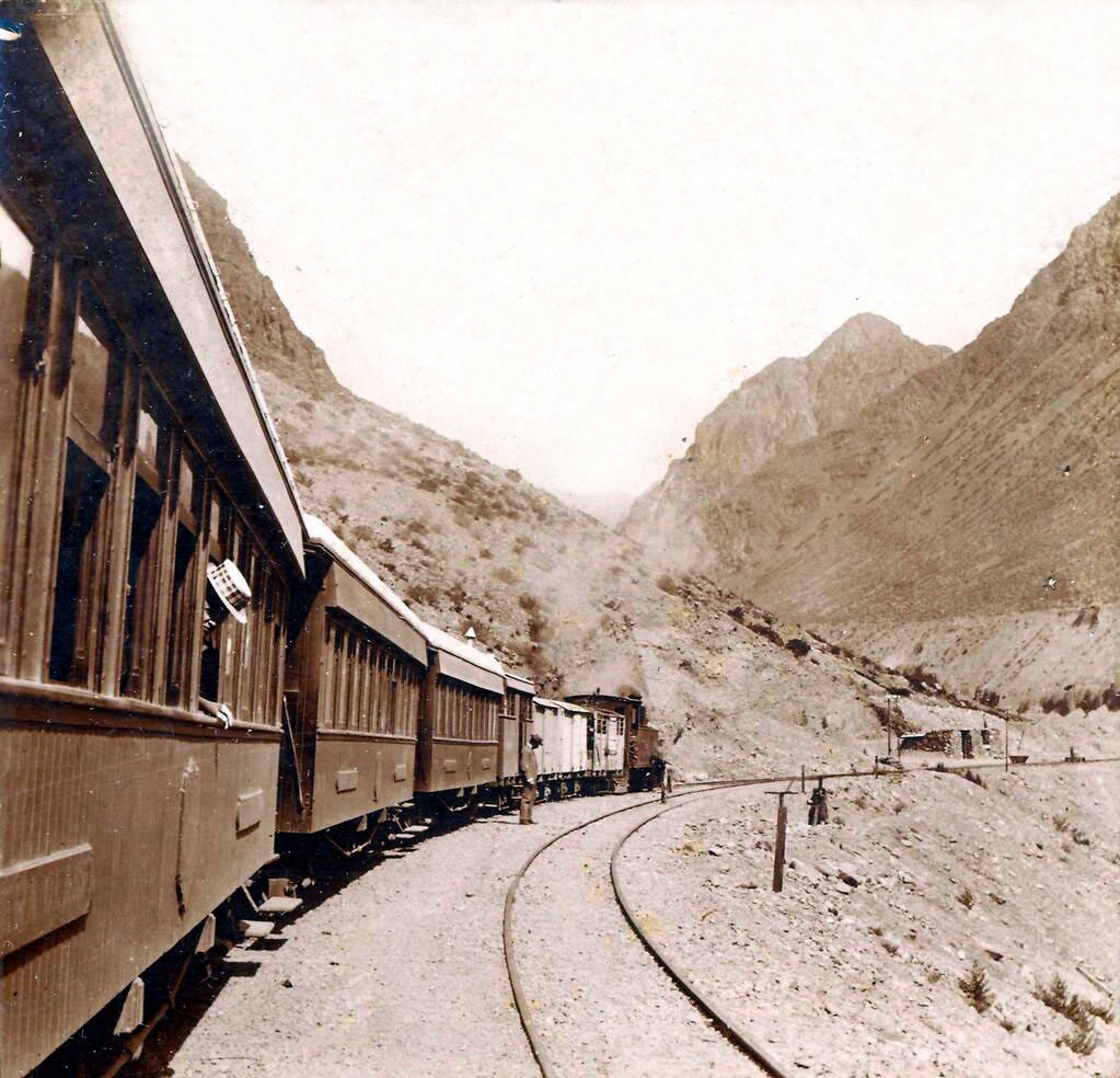 The Andes view from a Transandine Railway coach.